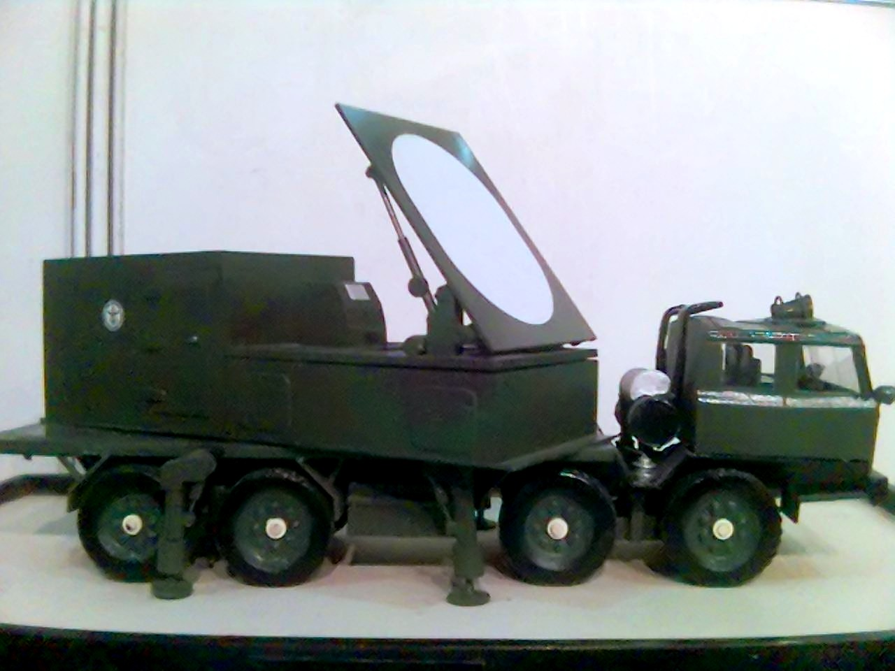 A model of the Weapon Locating Radar being developed by India for the counter- battery role.